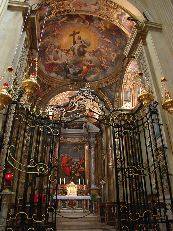 Basilica Ursiana or Ravenna Cathedral, Emilia-Romagna, Italy.